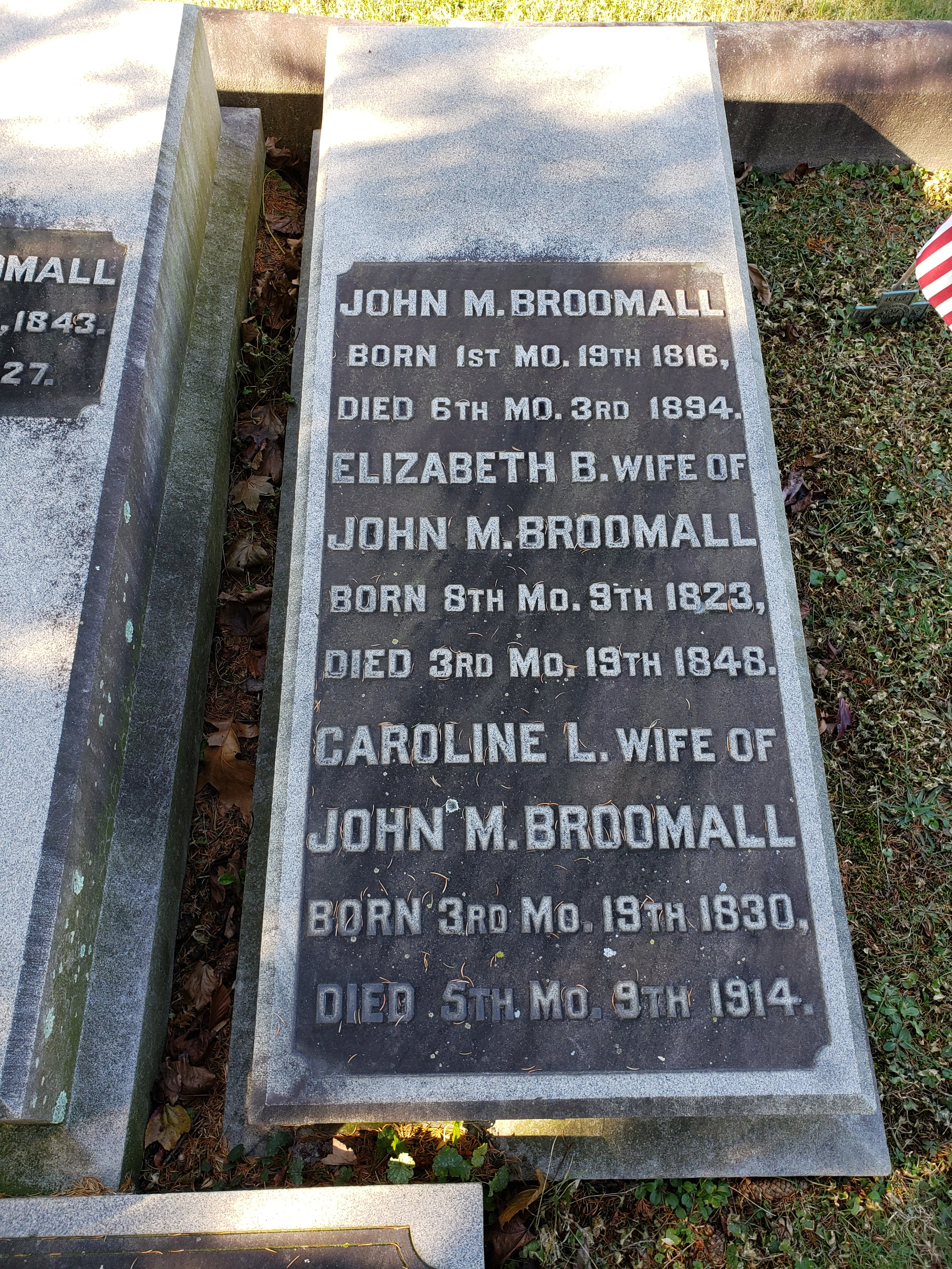 Photo of John M Bromall grave at Media Cemetery in Media, Pennsylvania. Photo taken November 2019